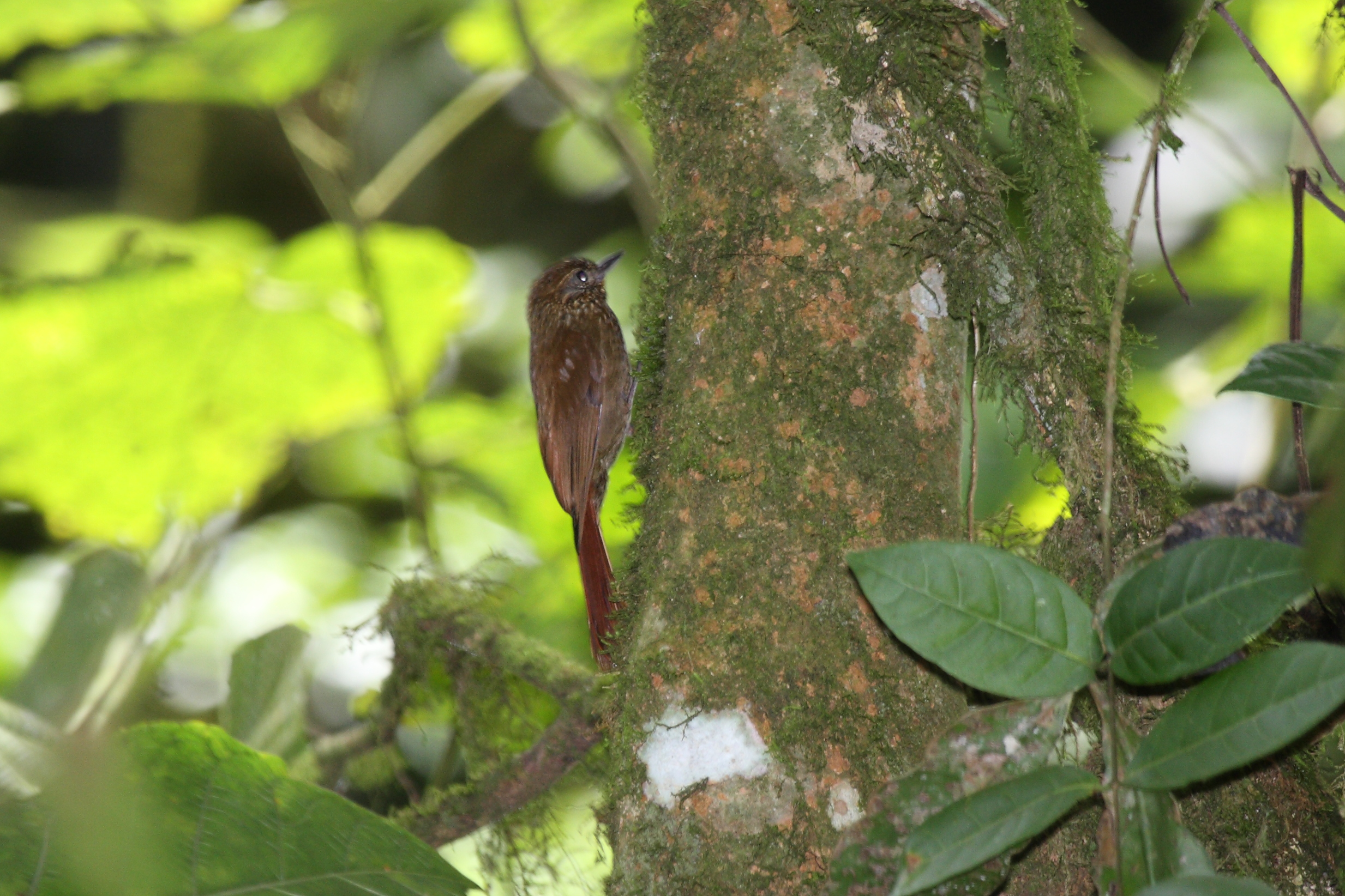 Photographed in El Valle, Panama.